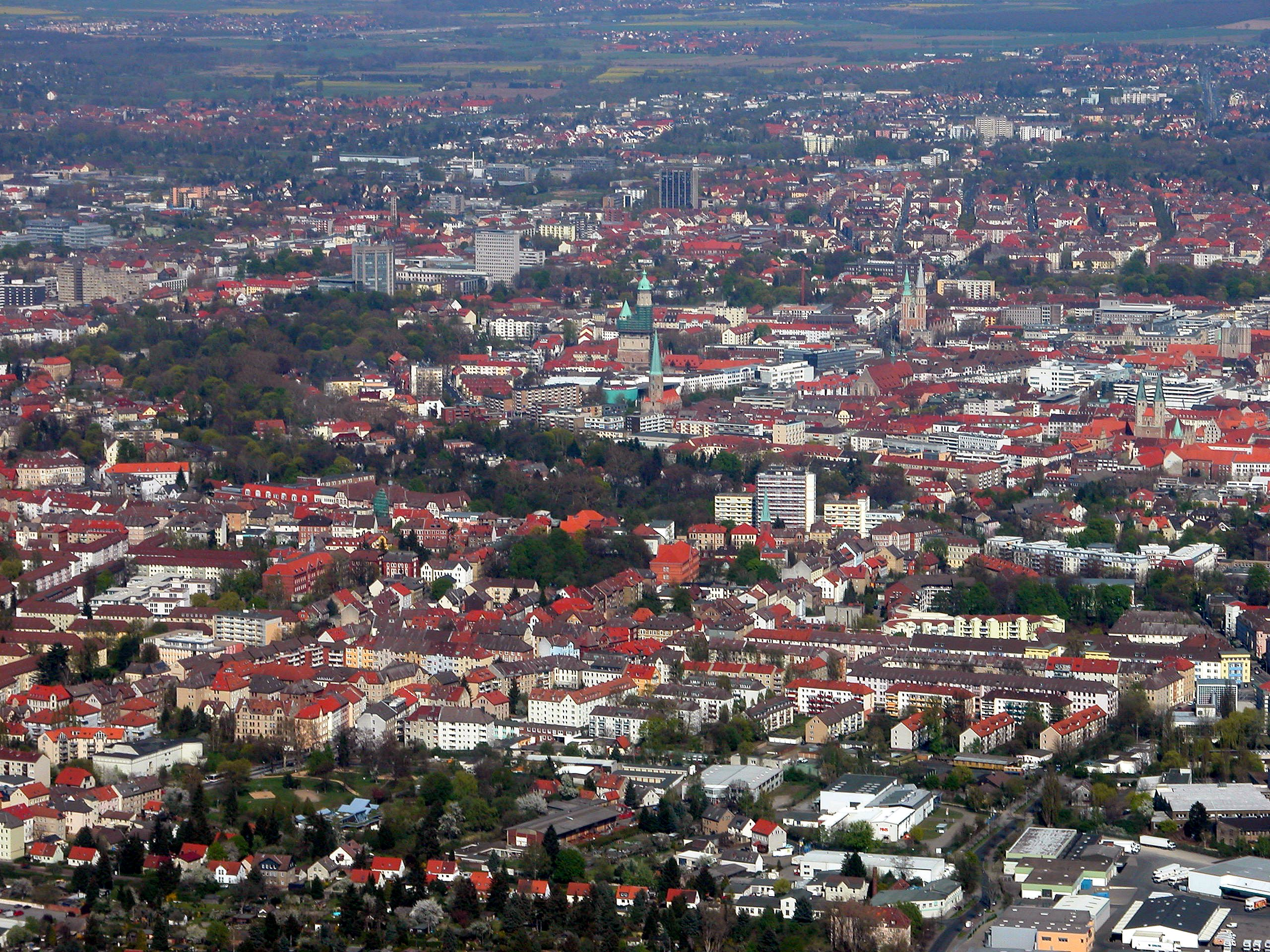 Aerial photograph of Brunswick, Germany as seen from the west.